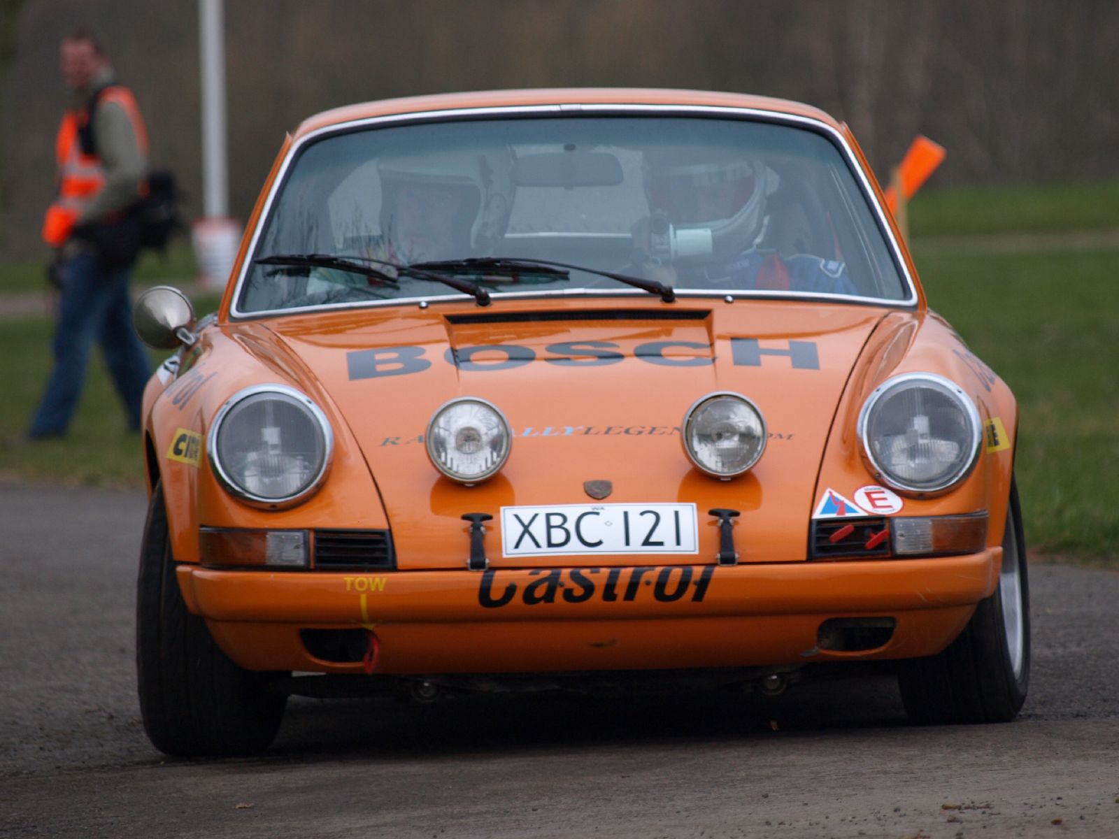 Björn Waldegård's Porsche 911 driven at Race Retro 2008, the International Historic Motorsport Show, at Stoneleigh Park, Coventry, England.